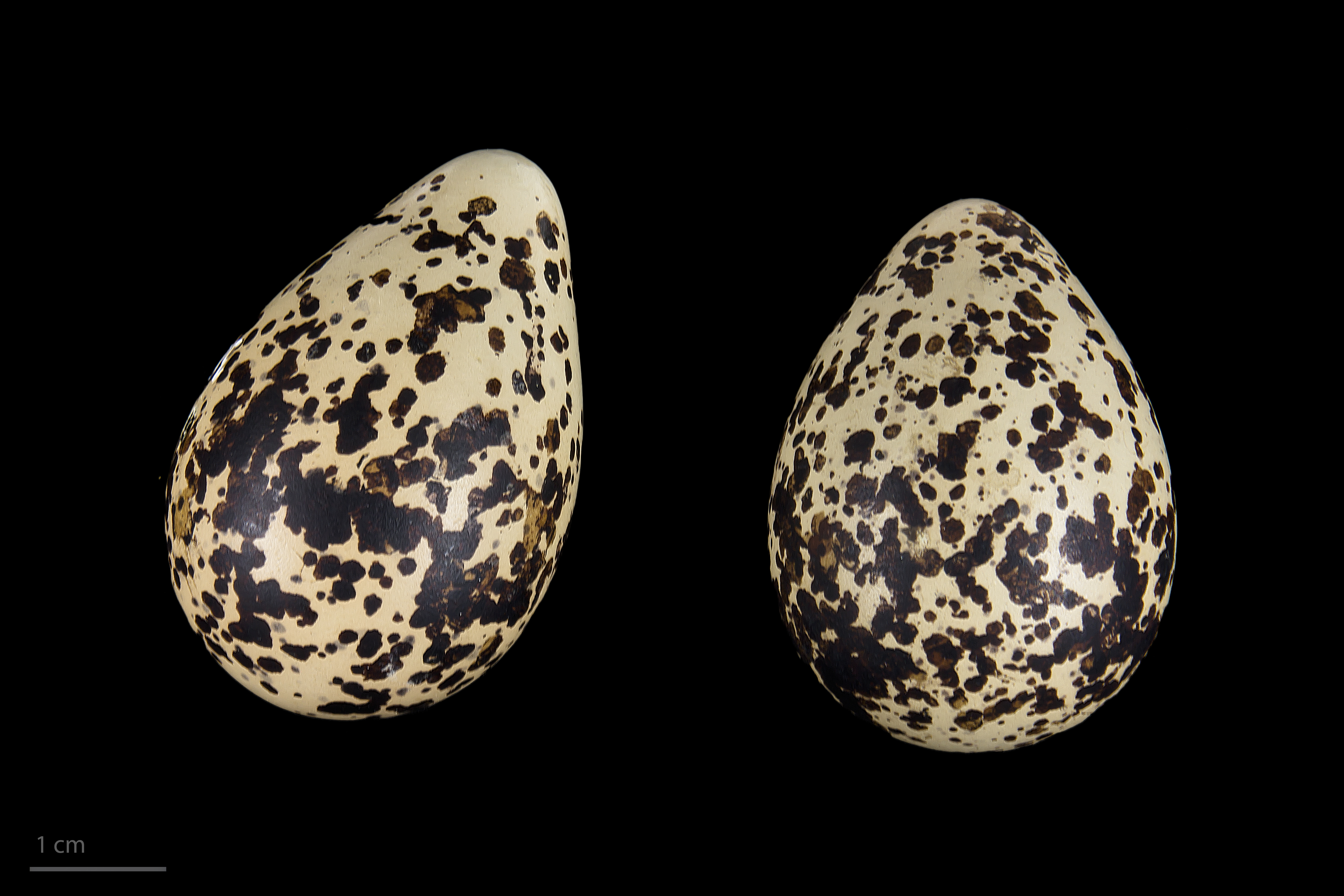 Eggs of Pluvialis apricaria altifrons Two specimens of the same spawn ; collection of Jacques Perrin de Brichambaut.